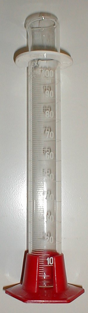 Image du wikipedia anglais, auteur Résumé original: 100 ml Graduated cylinder I took this picture and I release it into the public domain.